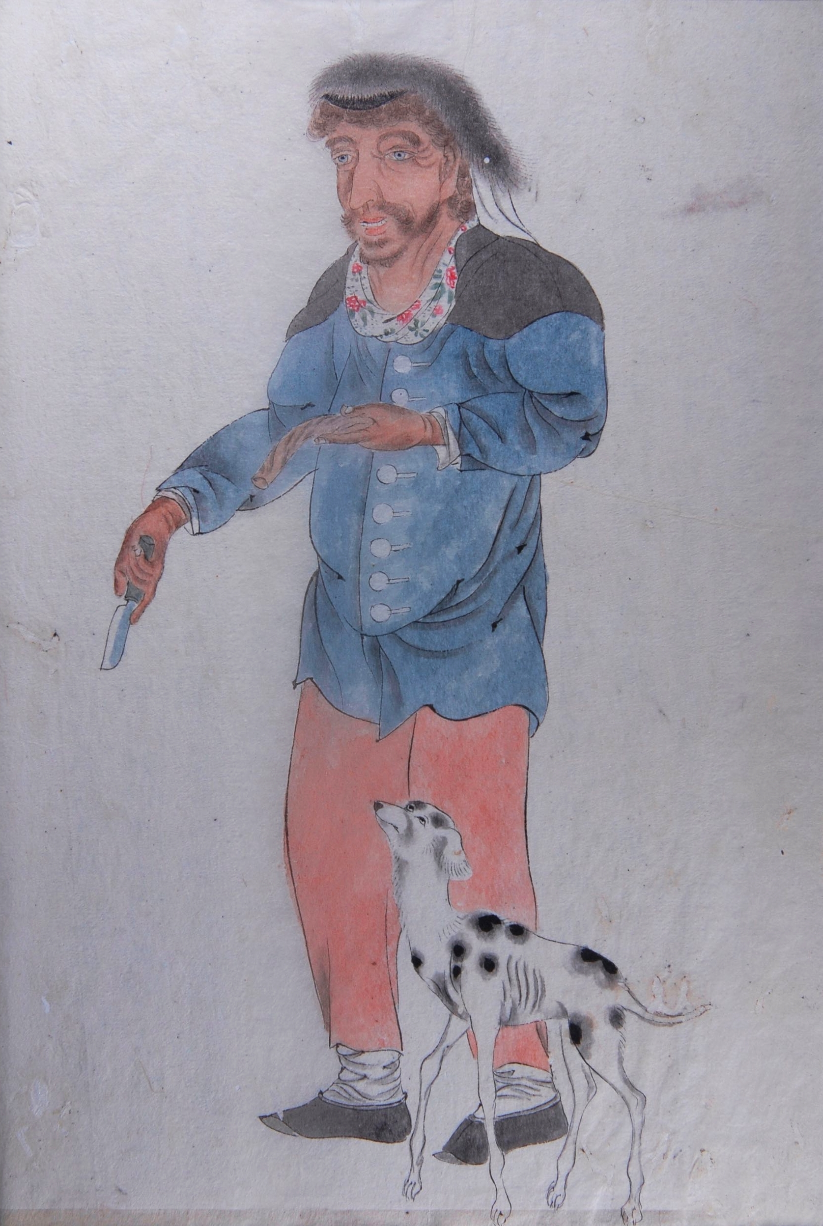 A watercolour by samurai Makita Hamaguchi showing one of the sailors with a dog from the ship that ‘did not look like food. It looked like a pet.’